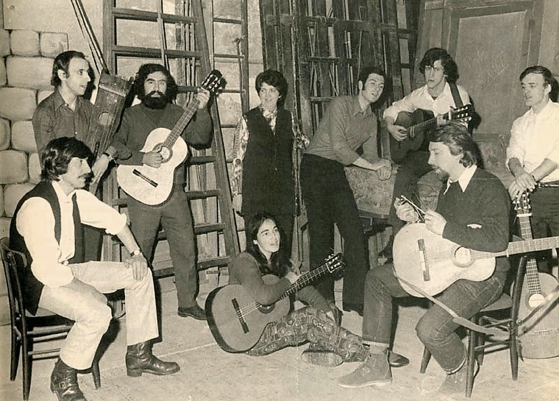 Basque singers who got together for the show Zazpiribai (1972). Members: Manex Pagola, Ugutz Robles-Aranguiz, Patxika, Peio Ospital, Pantxoa Carrere, Iñaki Urtizberea (txistulari and flautist), Lourdes Iriondo, Xabier Lete, Benito Lertxundi.